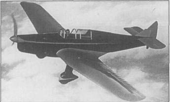 Original photograph taken by a UK government employee, photograph found on